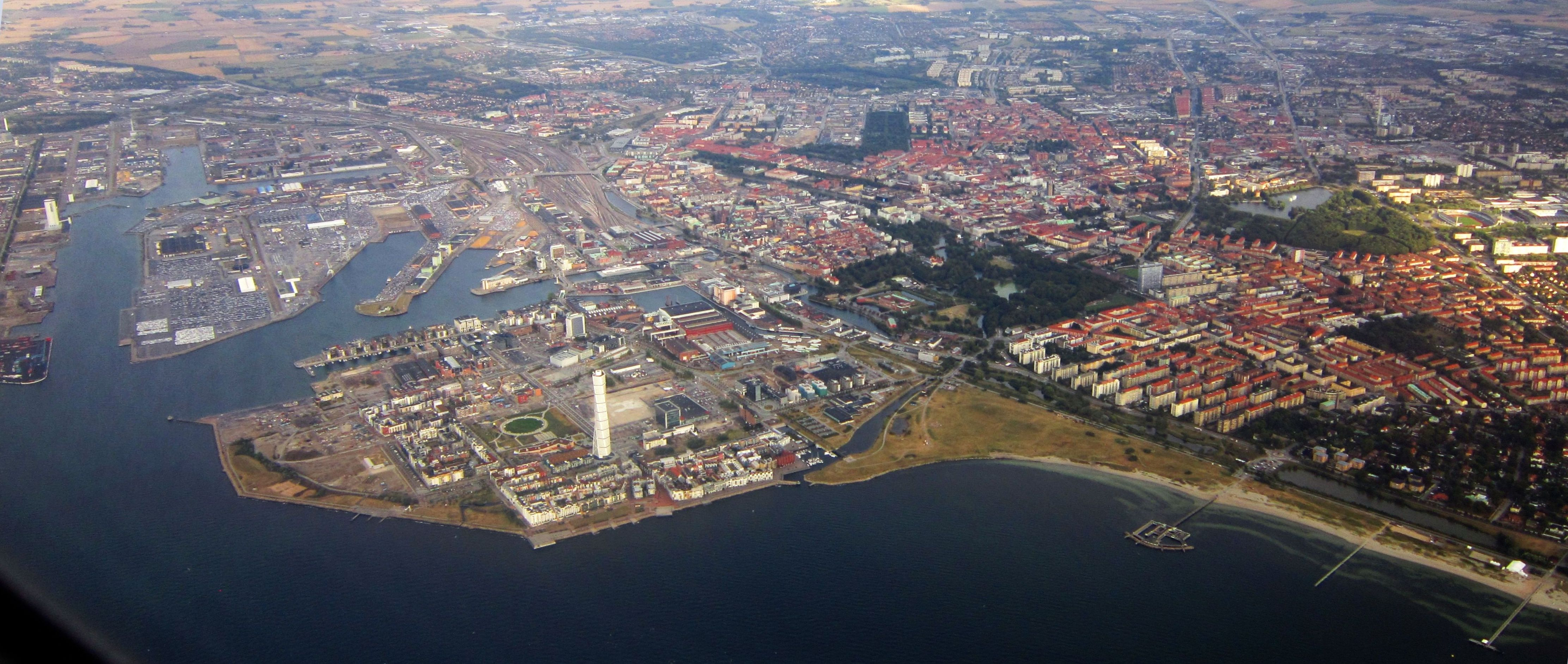 Malmö center: Turning Torso in the foreground, Malmö Castle behind it and to the right, Malmö Central Station to the left. The park behind and around the castle is Slottsparken, with the Kronprinsen tower in the far-right corner. Pildammsparken and Malmö Stadion are at far right, and Ribersborgs open-air bath near bottom-right (in the sea).